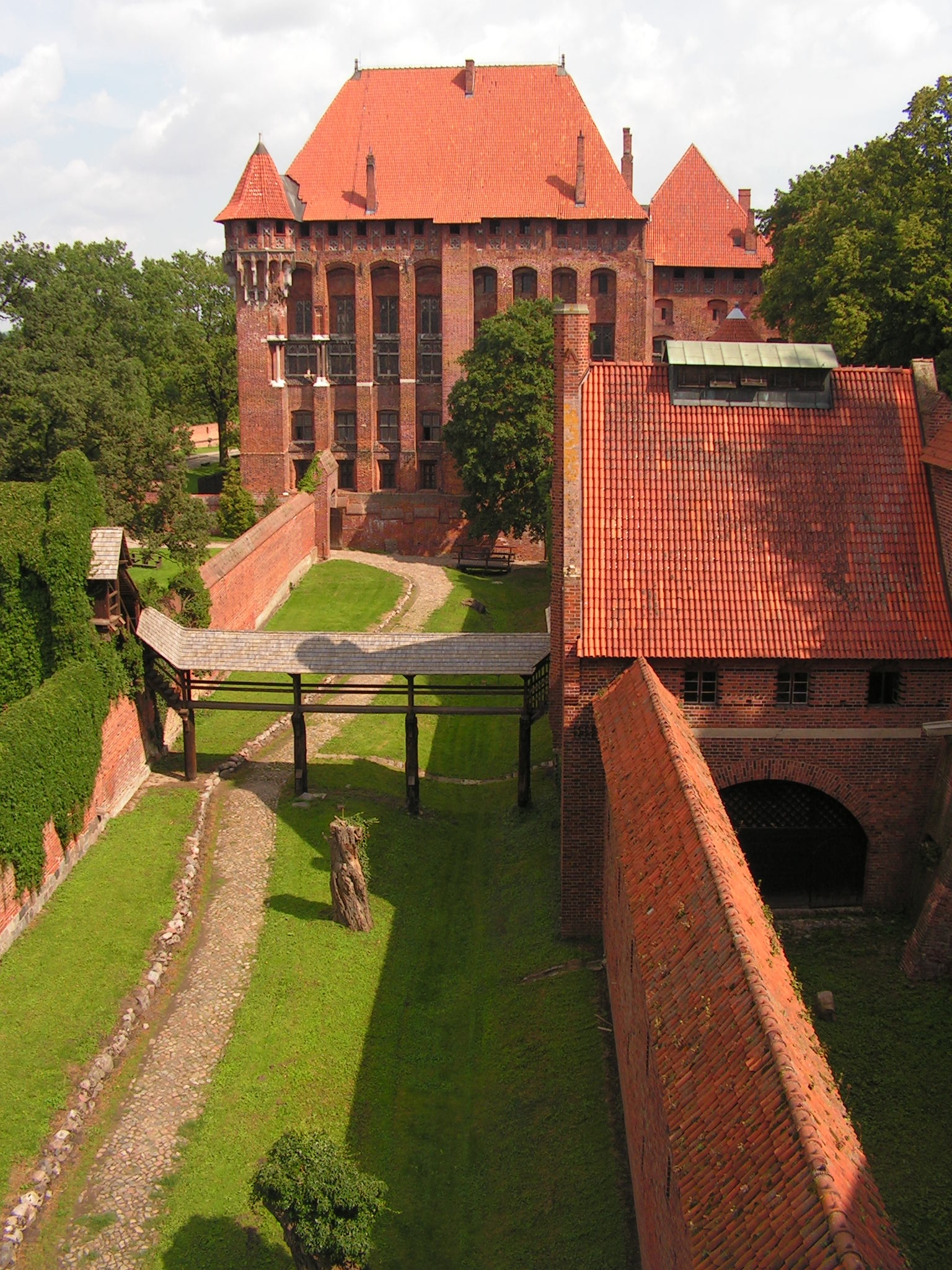 Malbork - castle